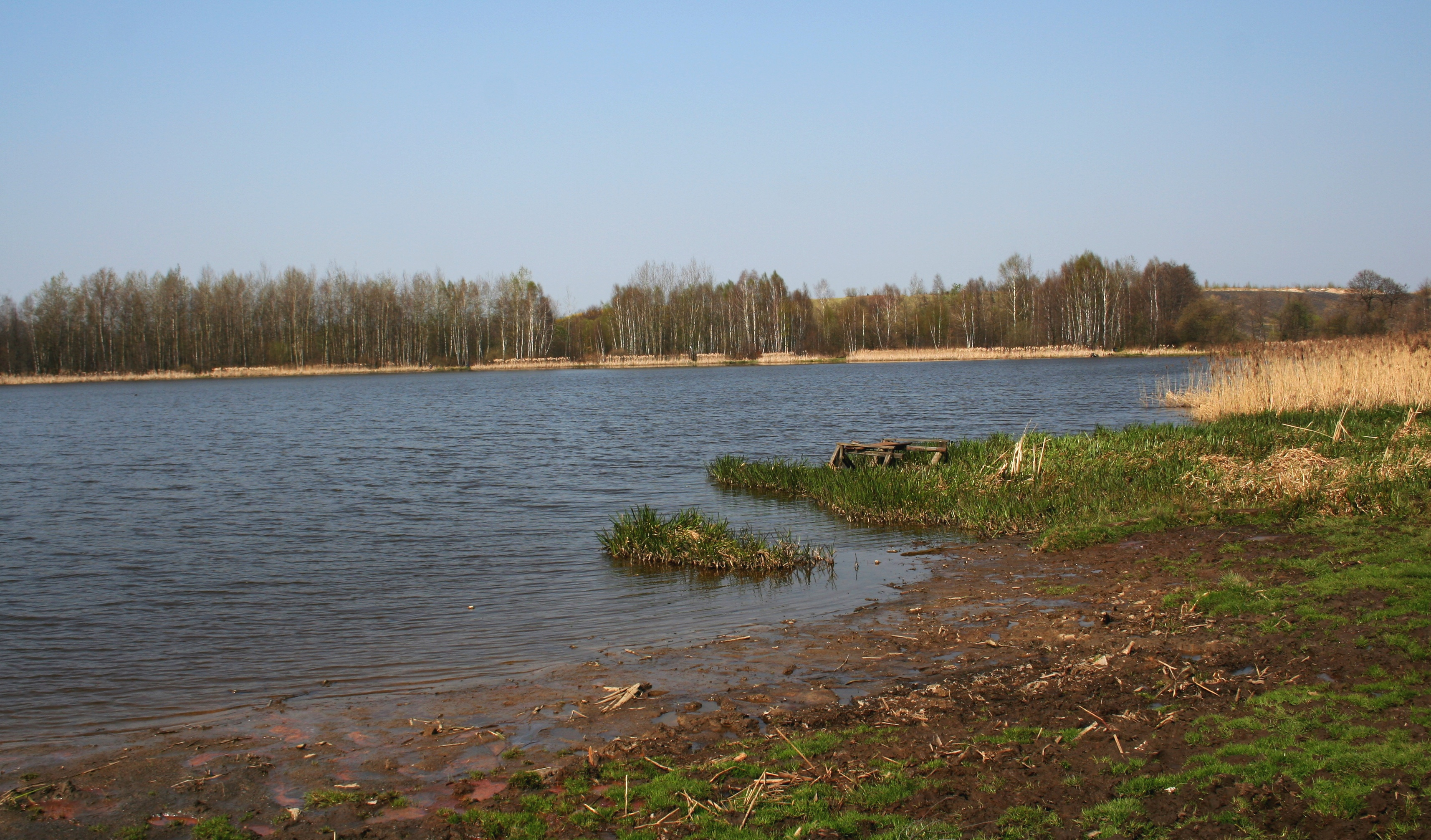 Pond "Bocianie gniazdo" in Borowa Wieś, district of Mikołów Poland